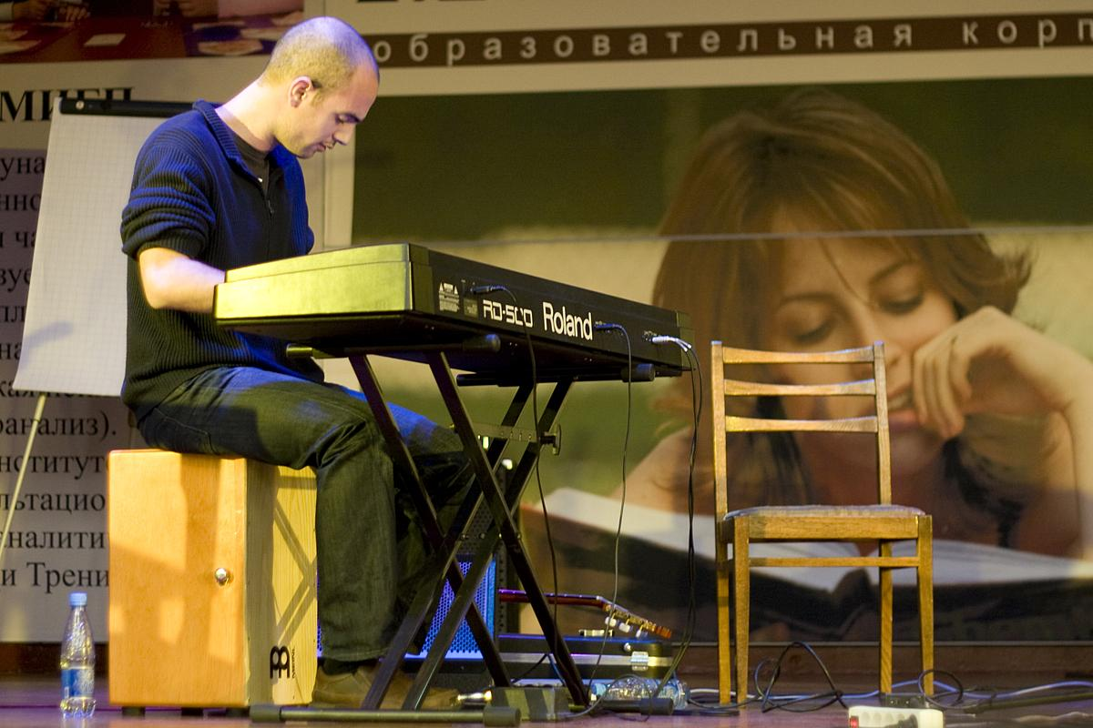 Shai Maestro of "Avishai Cohen Eastern Unit" during master classes in Kiev, 2008-10-19